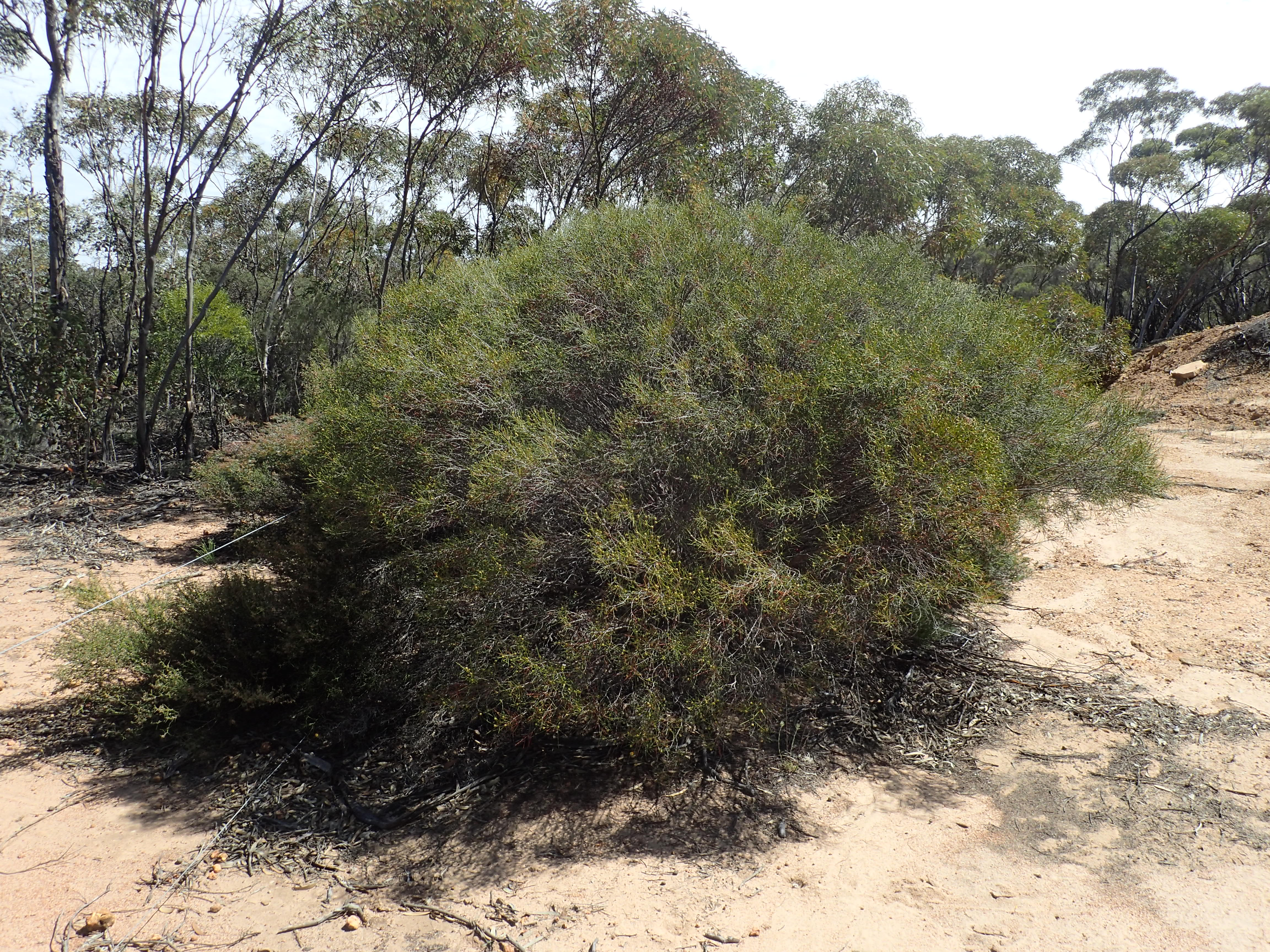 Melaleuca protrusa growing near the boundary fence of the Wongan Hills Pistol Club